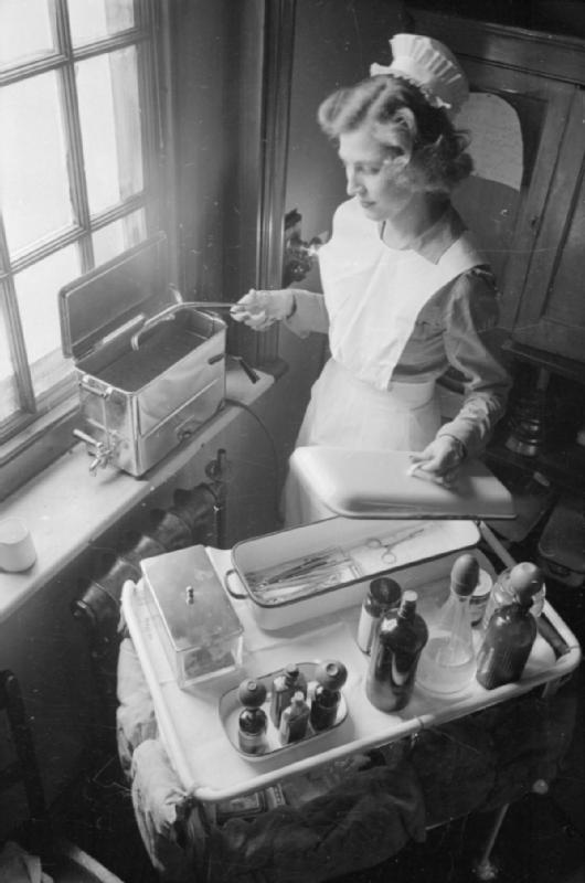 An American Nurse in Britain- the work of Sister Trotter at Park Prewett Hospital, Basingstoke, England, 1941 Sister Trotter sets sterilised instruments out on a tray, ready to take to the doctors on their rounds at Park Prewett Hospital in Basingstoke.